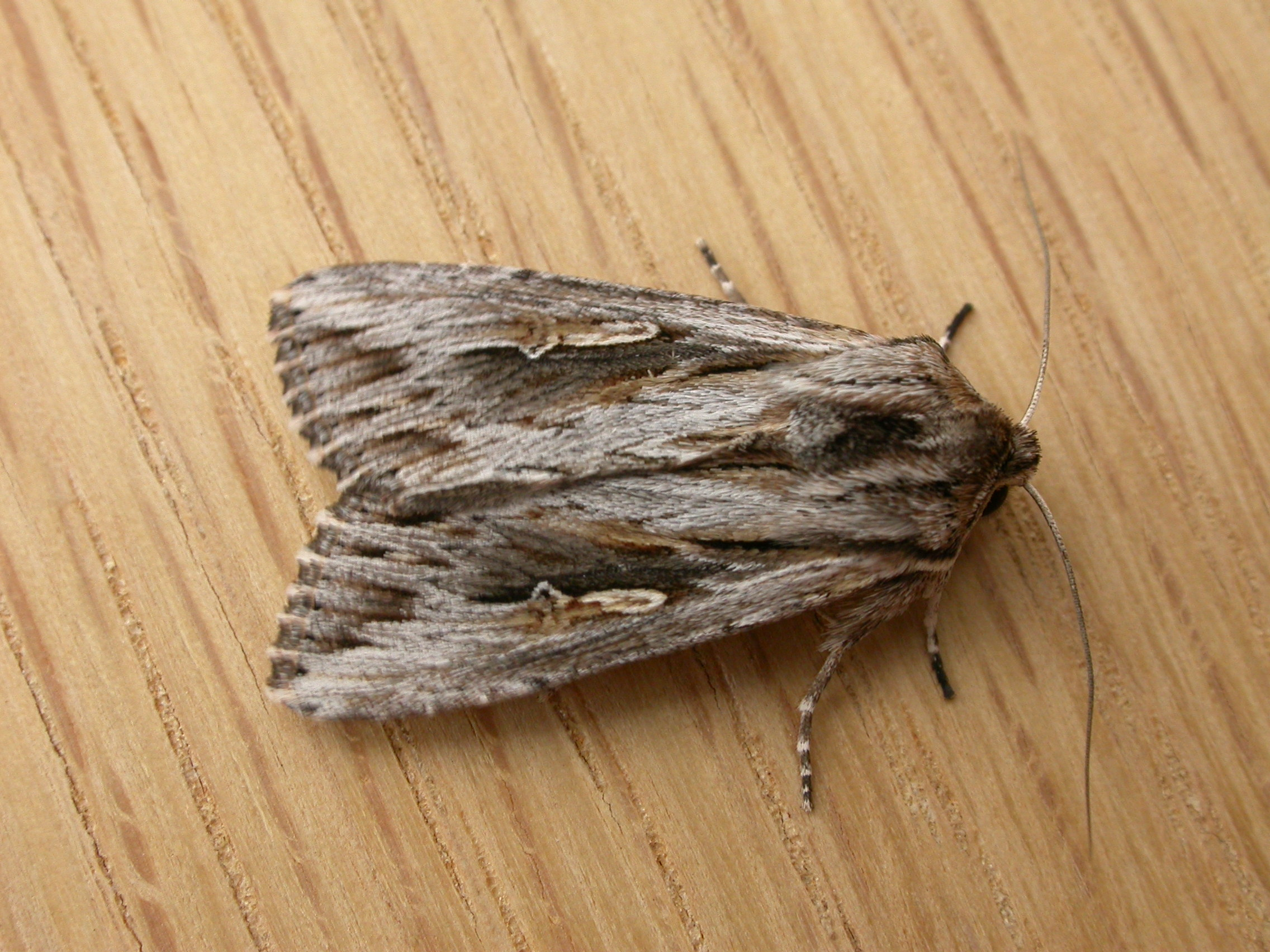 Persectania ewingii (Westwood, 1839), to MV light, Aranda, ACT, 28/29 October 2008